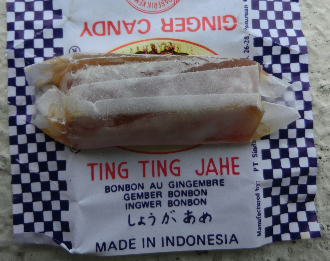 Ginger Candy: Ting Ting Jahe 薑糖